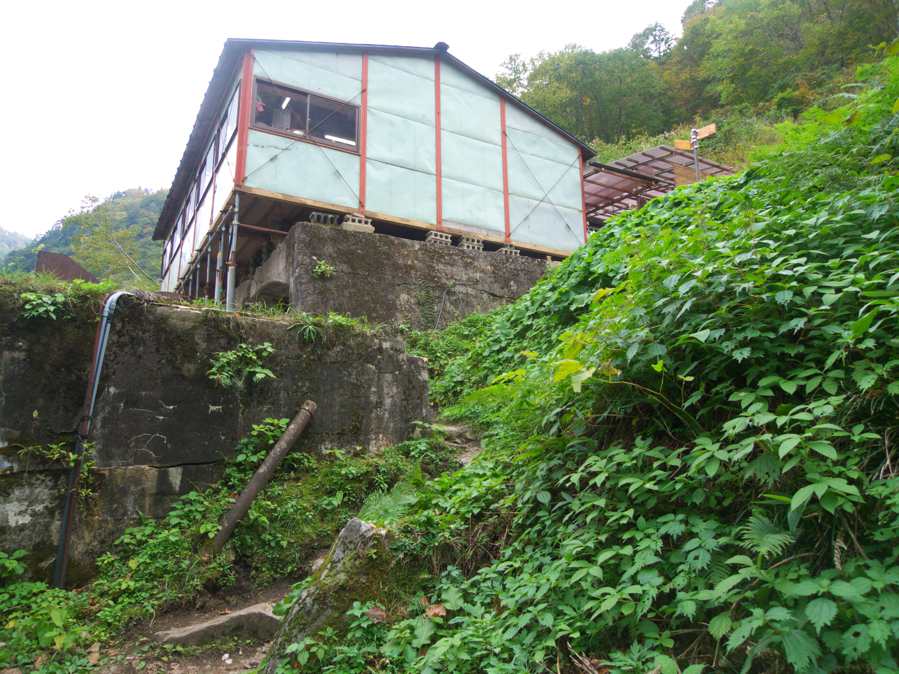 Azohara Onsengoya ("Azohara Hot Spring Hut"), seen from below